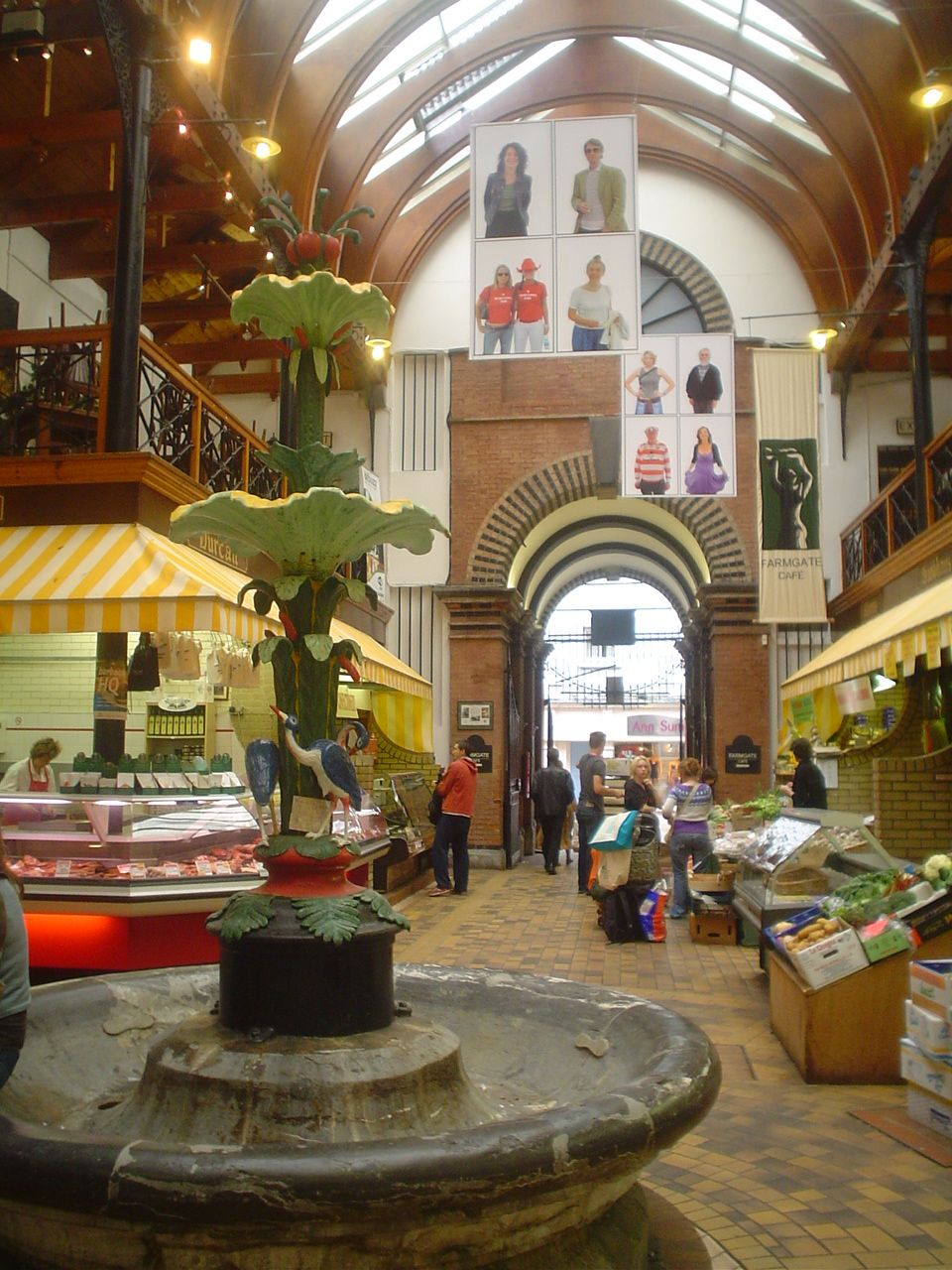 Cork Old English Market